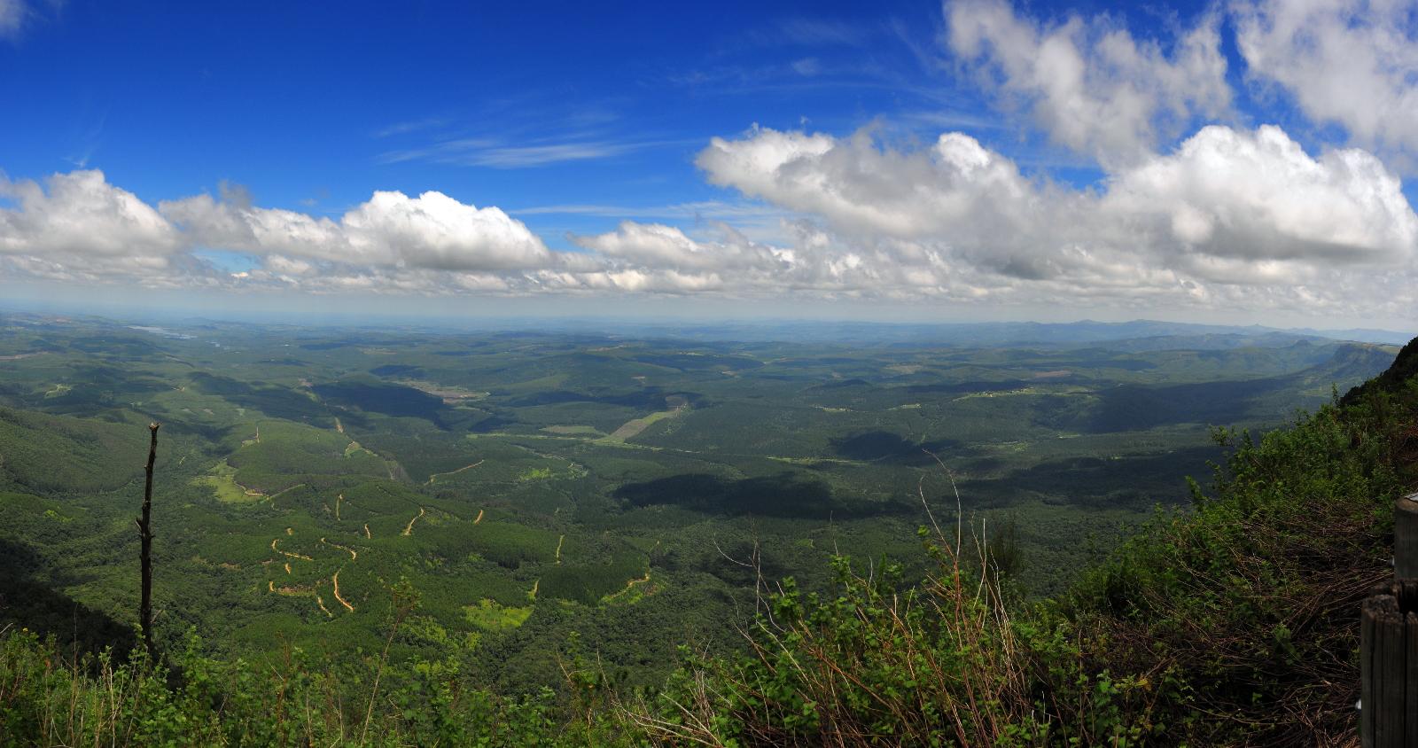 The Mpumalanga lowveld, as seen from God's Window, South Africa